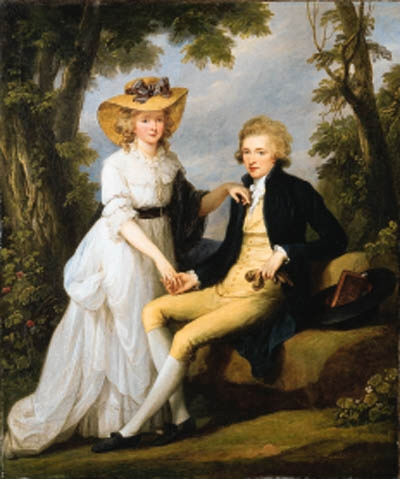 Portrait of Robert Stearne Tighe (1760-1835) of Mitchellstown, co. Westmeath, Ireland, and his wife Catherine, small full-length, in a wooded landscape